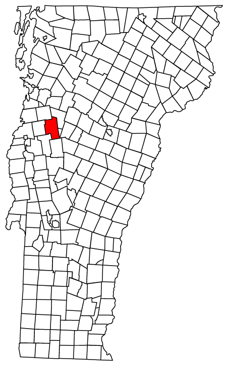 Description: Map of Vermont towns with Starksboro highlighted Source: Map created by Jared C. Benedict on 26 March 2004. Copyright: © Jared C. Benedict.